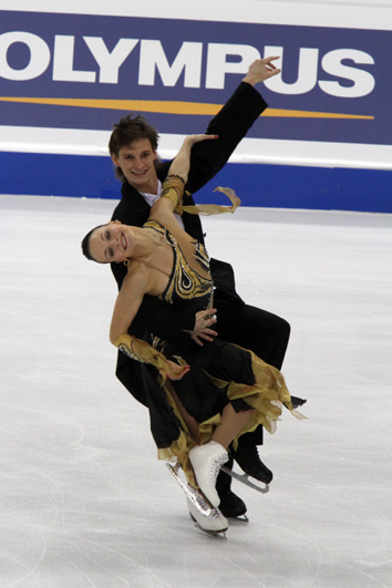 Ekaterina Rubleva and Ivan Shefer at the the 2010 World Championships.Compulsory dances - Golden Waltz